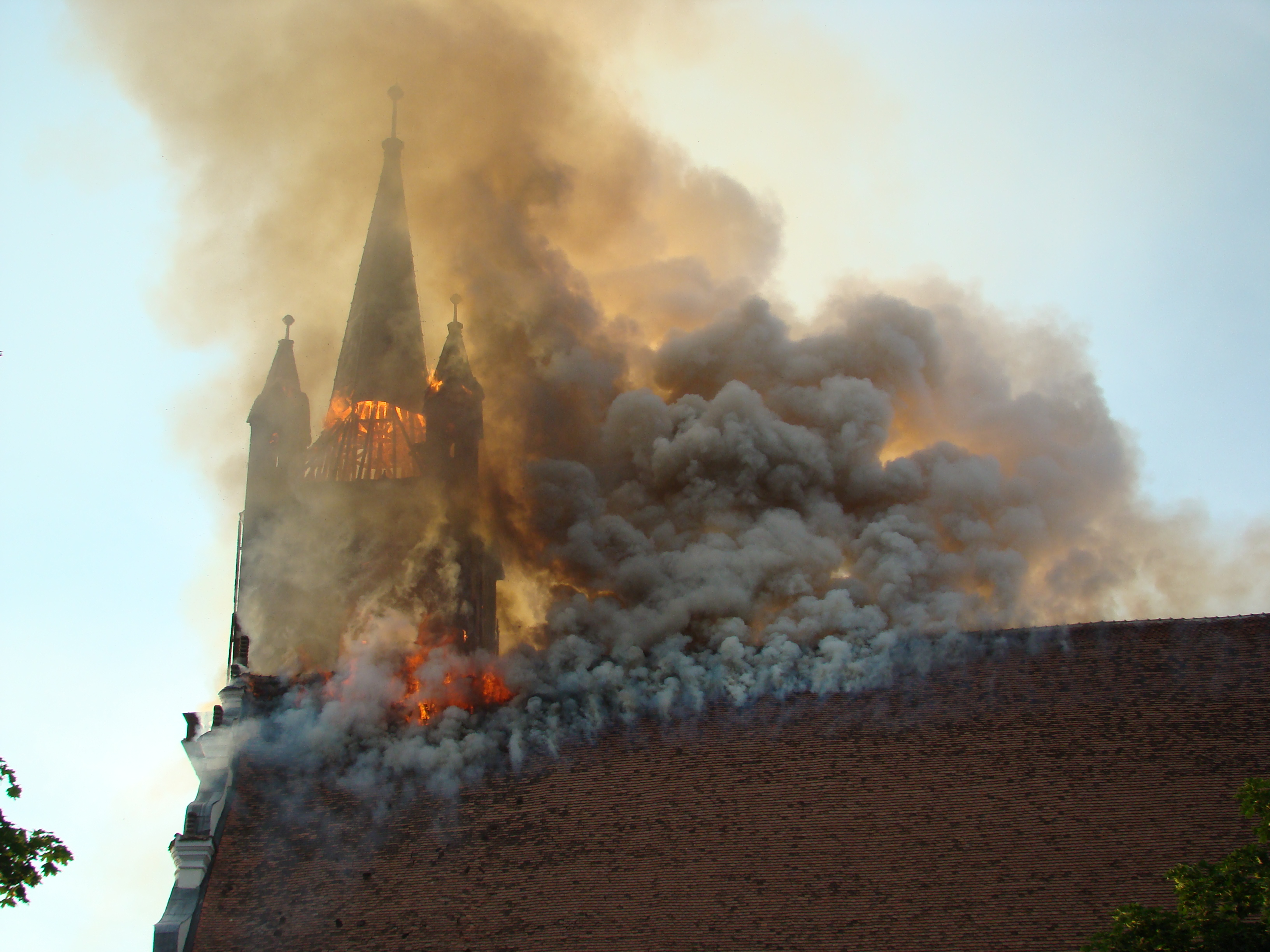 Burning evangelical church in Bistriţa, Romania, 2008-06-11